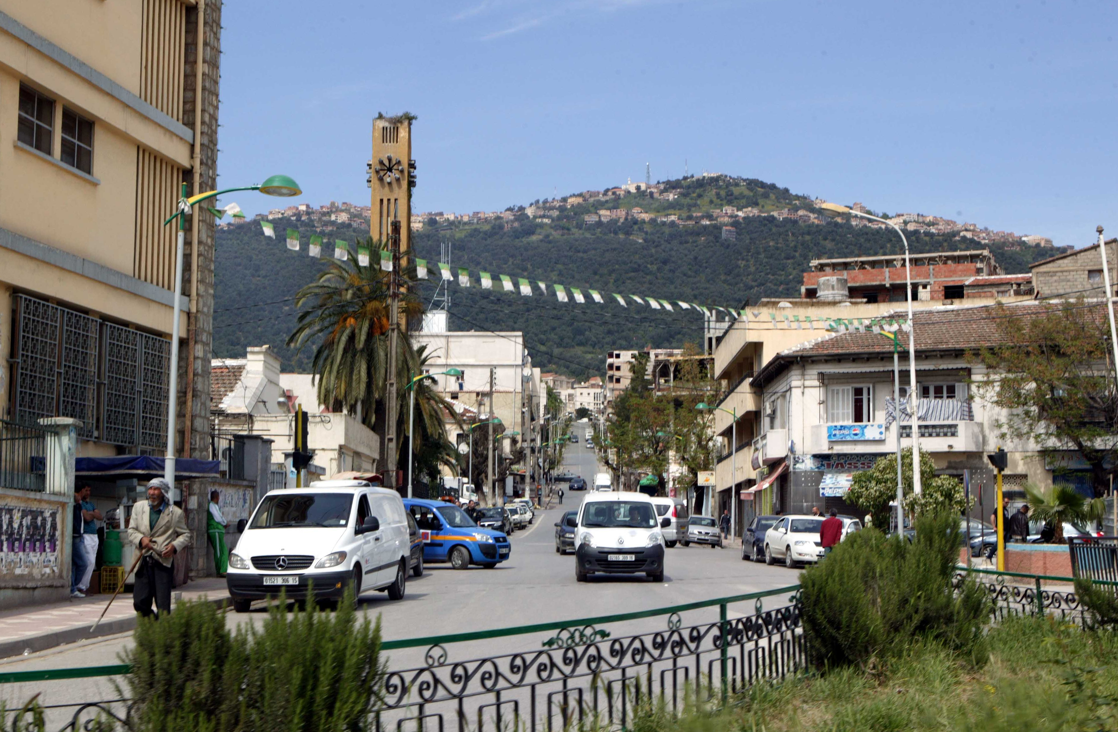 Tizi-Ouzou played host to the 12th Amazigh Film Festival, where Libya was the guest of honour. استضافت تيزي وزو مهرجان الفيلم الأمازيغي الثاني عشر وكانت ليبيا ضيفة الشرف. Tizi-Ouzou a accueilli le douzième Festival du film amazigh, dont la Libye était l'invitée d'honneur.